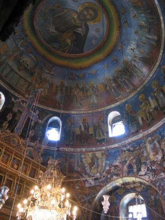 The church in Lazaropole